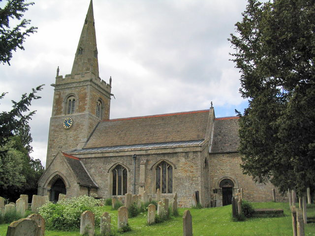 Church of St Medard and St Gildard, Little Bytham. Interesting door (on right) with typanum (see supplemental)